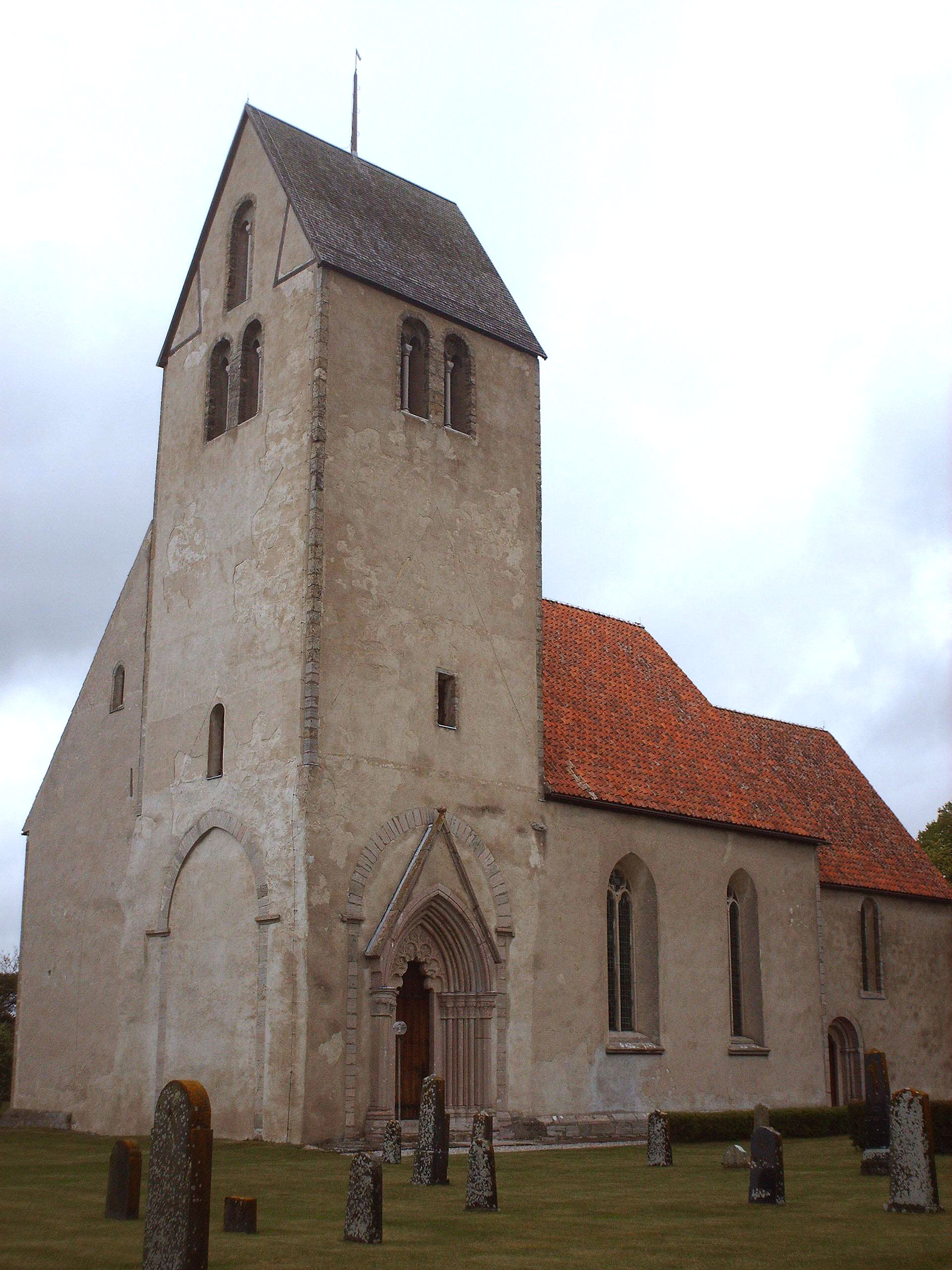 Hamra Church, Gotland, Sweden.